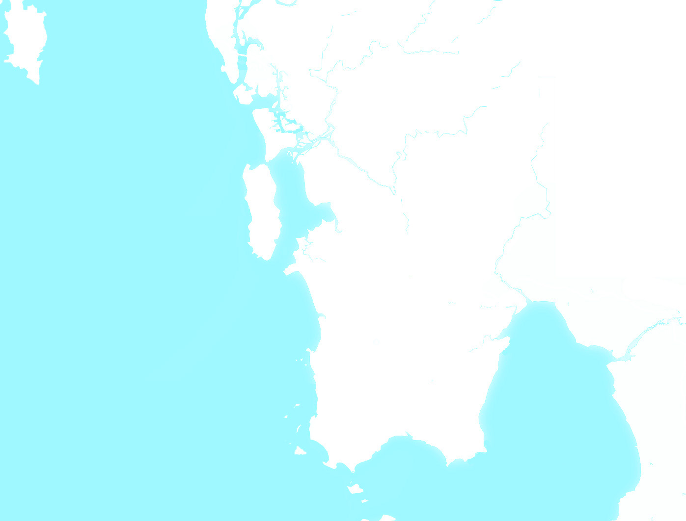 Location map of Cambodia's islands North Equirectangular projection, N/S stretching 105 %. Geographic limits of the map: N: 11.5° N S: 9.7° N W: 102.5° E E: 103.8° E